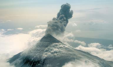 The eruption of Shishaldin Volcano in April 1999